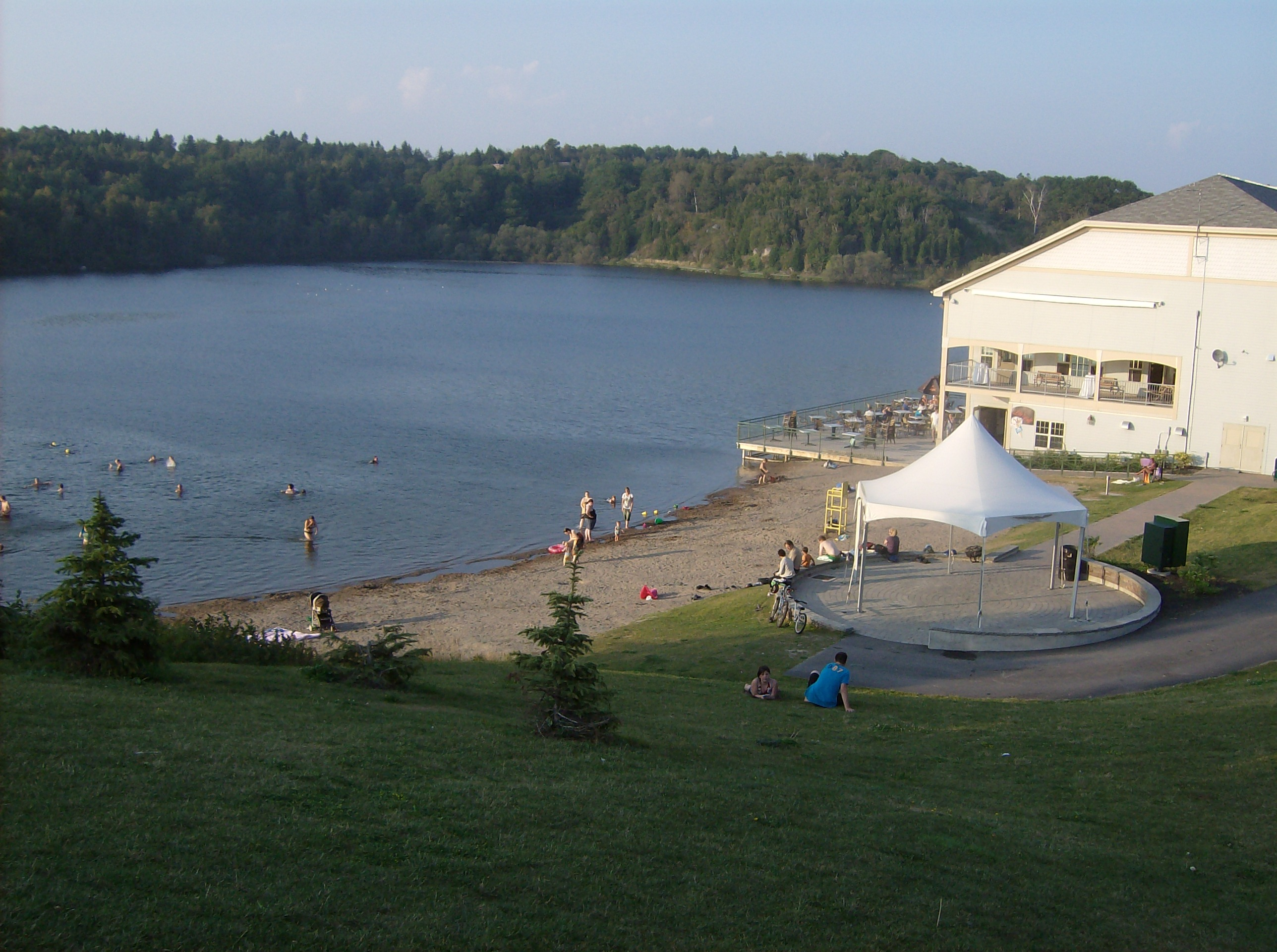 Lilly Lake Pavillion / Beach, Rockwood Park, Saint John, New Brunswick.